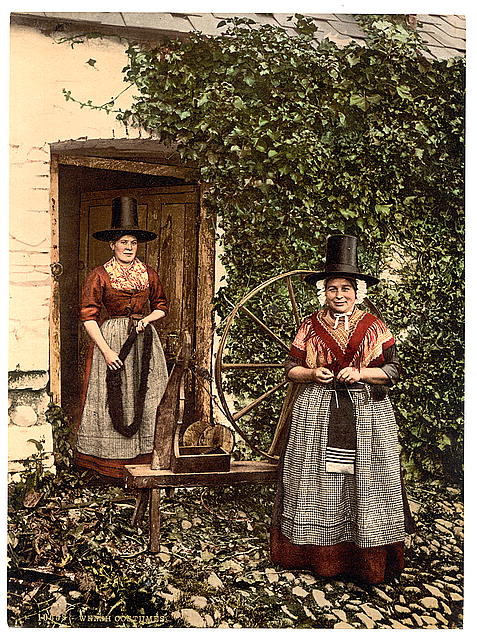 Two Welsh women in traditional rural costume, outside a cottage, with spinning wheel.